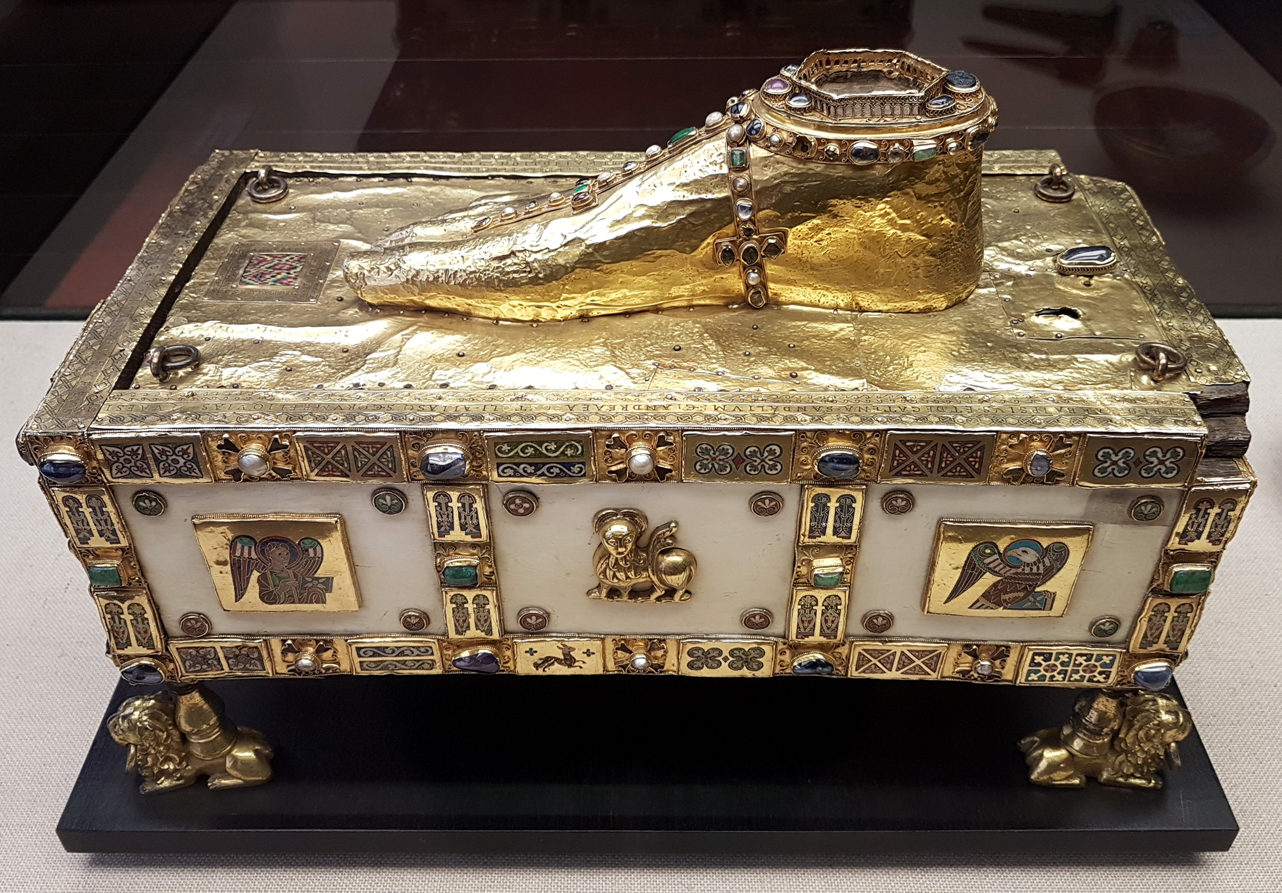 View of the so-called portable altar of Saint Andrew (Andreas-Tragaltar or Egbert-Schrein) in the treasury of Trier Cathedral, Germany. The reliquary contained a sandal of Saint Andrew, as well as the cup of Saint Helena, shackles from the chain of Saint Peter, some of his beard hair, and a nail of the Holy Cross (in a separate reliquary). The object is the most famous work in the Trier Cathedral treasury and a major work of the 10th-century Egbert workshop in Trier.